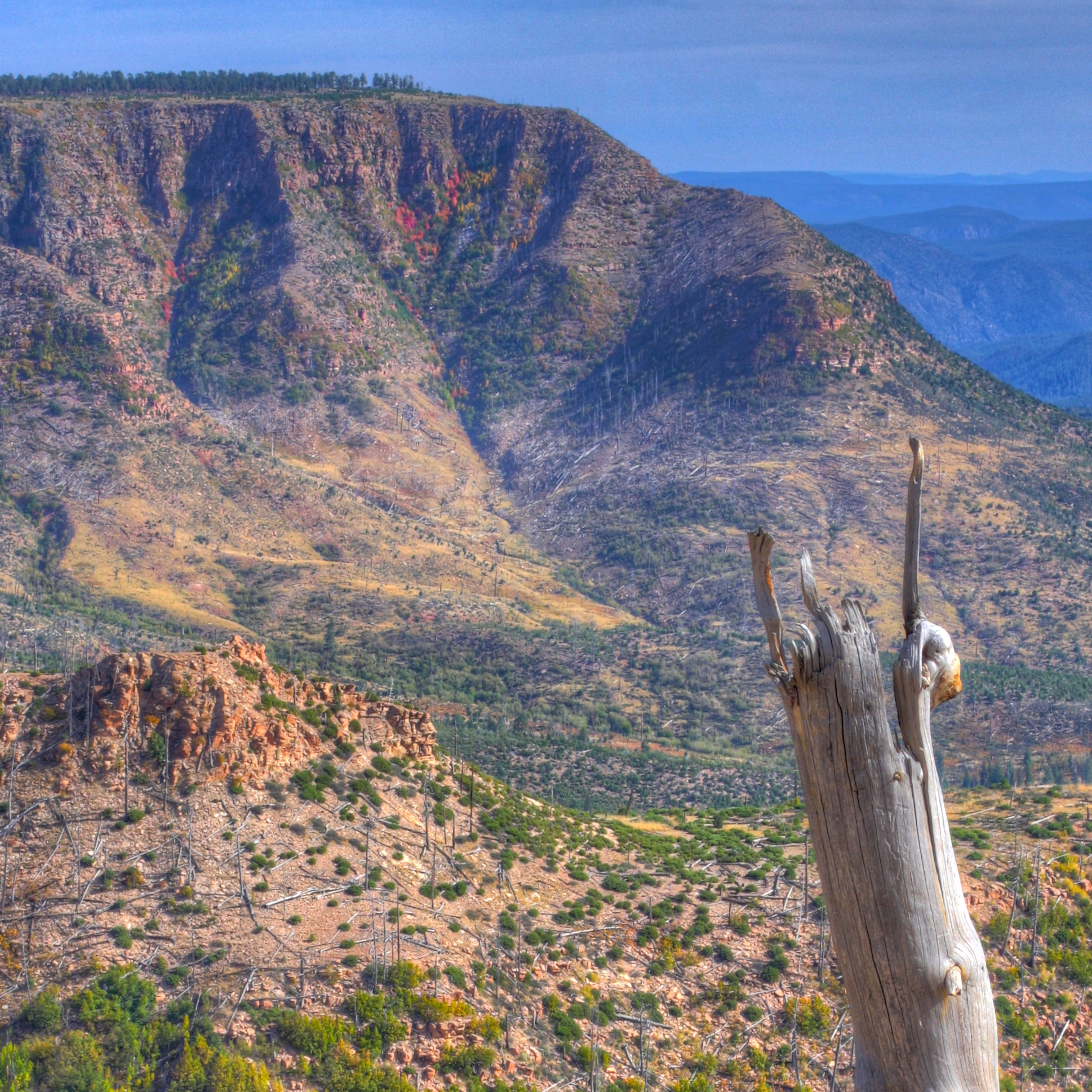 The Mogollon Rim — east of Pine, in Gila County, Arizona. The Mogollon Rim stretches 320 kilometres (200 mi) from the middle of Arizona to the New Mexico border. Along much of the Rim the elevation ranges from 1,500 metres (4,900 ft) to 2,100 metres (6,900 ft). One can see that much of the tree growth is dead, either from a planned or unplanned burn. (Explore)... View Large On Black